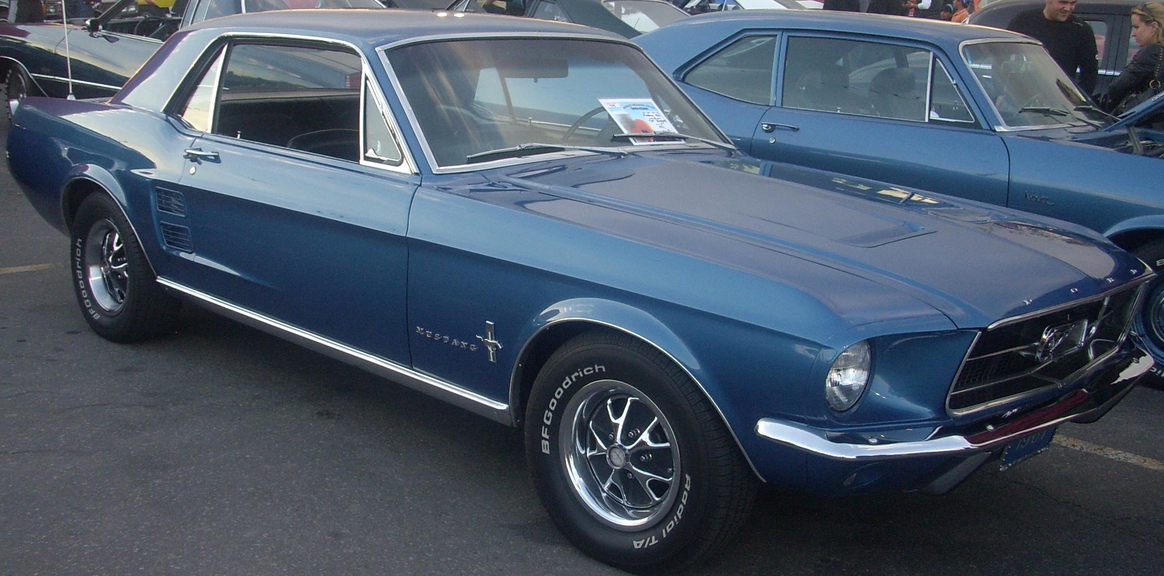 1967 Ford Mustang photographed in Montreal, Quebec, Canada at Gibeau Orange Julep.